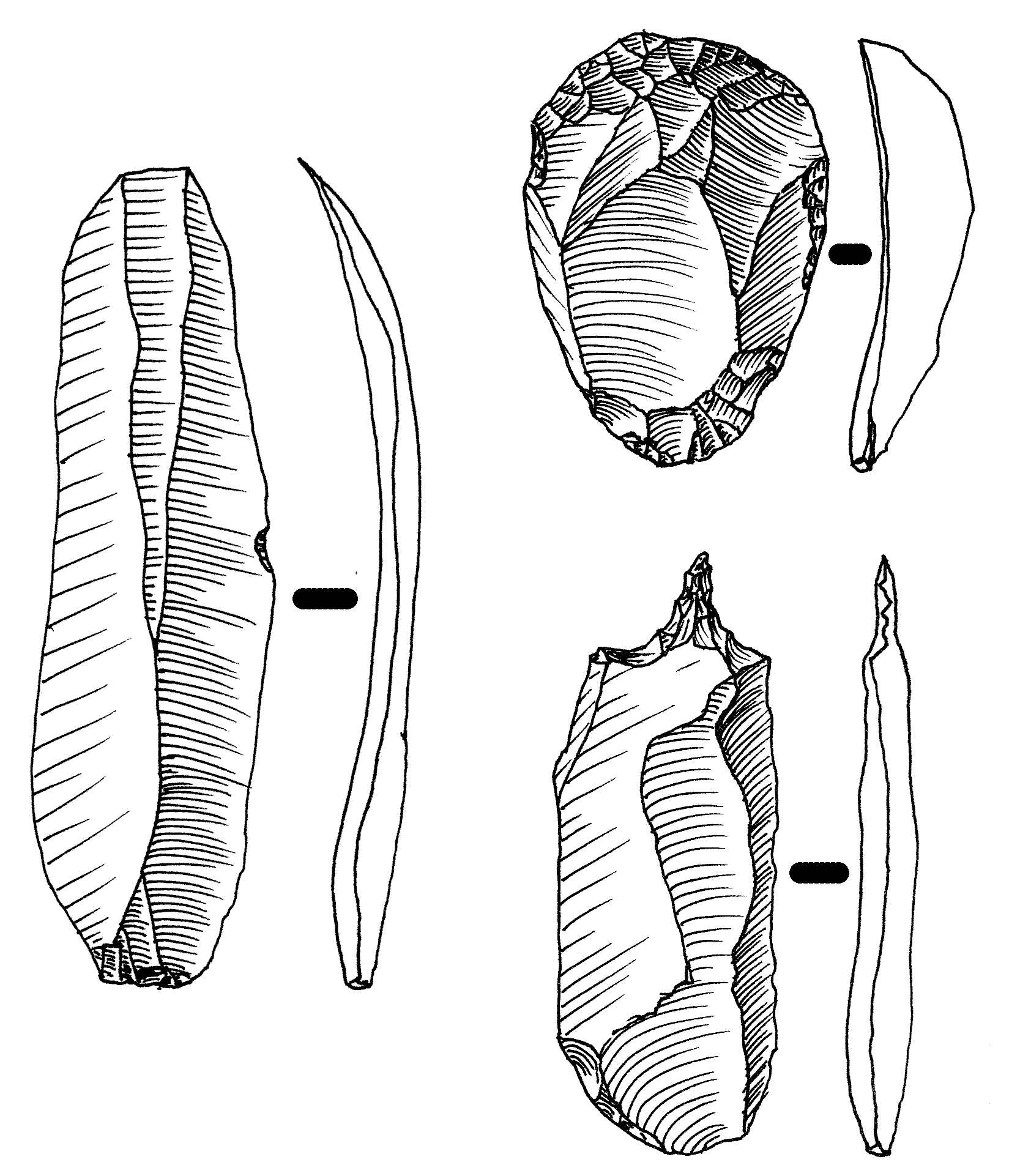 Stone tools fron Upper Paleolithic: blade of flint, end scraper and drill